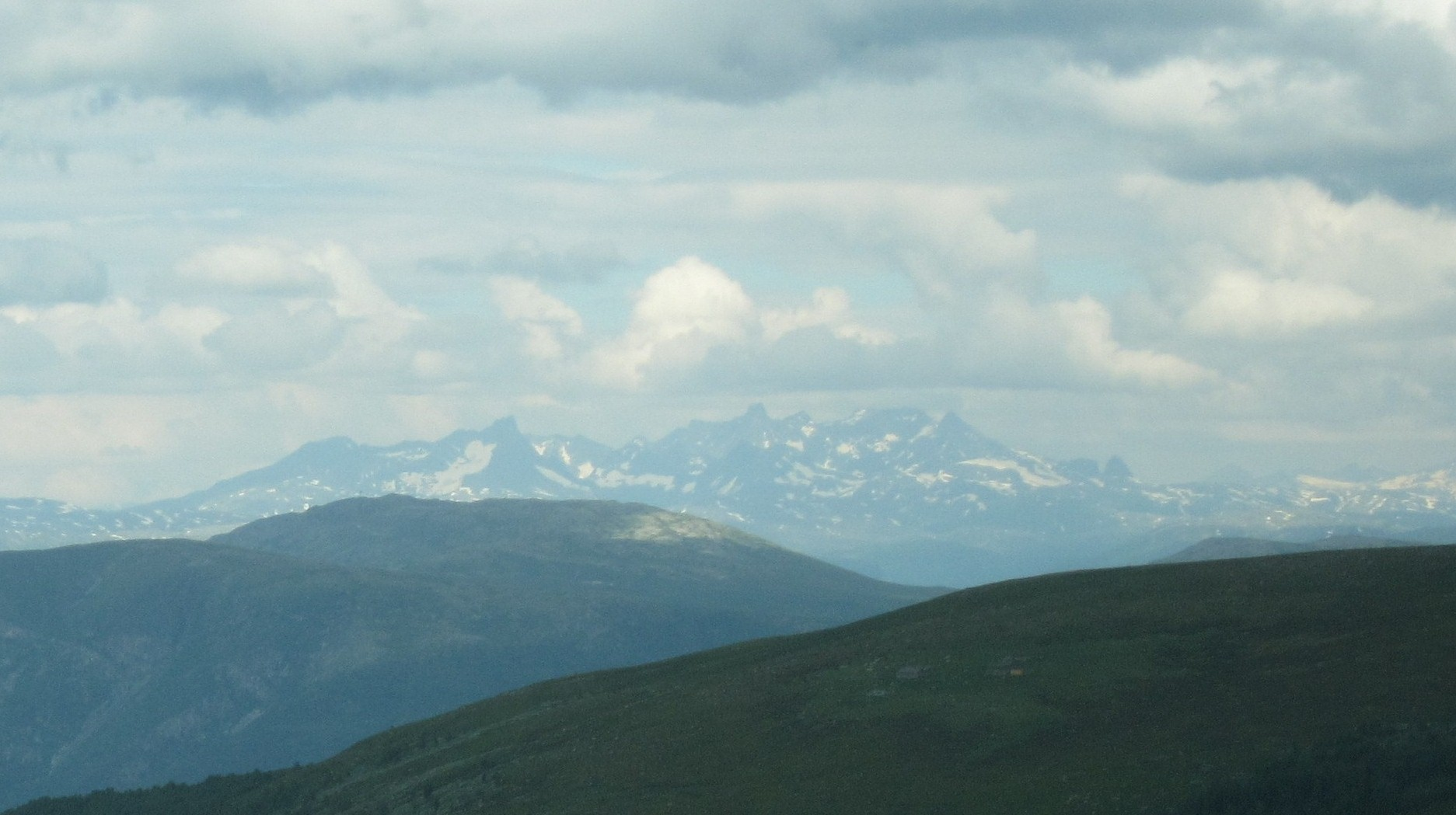 Hurrungane in Jotunheimen seen from Aurlandsvegen Mountain pass (snøvegen).